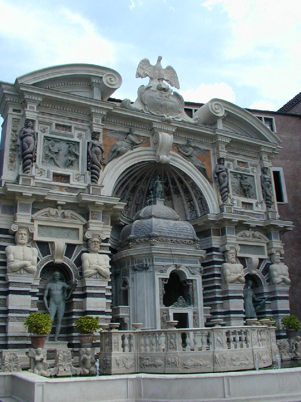 Tivoli, Villa d'Este: Organ Fountain